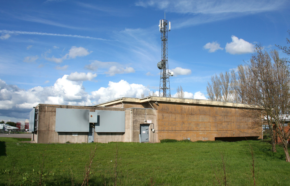 Hack Green Secret Nuclear Bunker, now a Cold War museum, Cheshire Hack Green Secret Nuclear Bunker Hack Green was an RAF camp and radar station during the Second World War. After the war, it was converted to house a radar installation, part of the ROTOR network, in a partially underground bunker. It was later used as a civil and military air traffic control site, but was abandoned in 1966. In 1976–84, the abandoned RAF site was converted into a nuclear bunker complex, which served as the Home Defence regional headquarters for a large area of the North West until 1993. The abandoned bunker became a Cold War museum in 1998